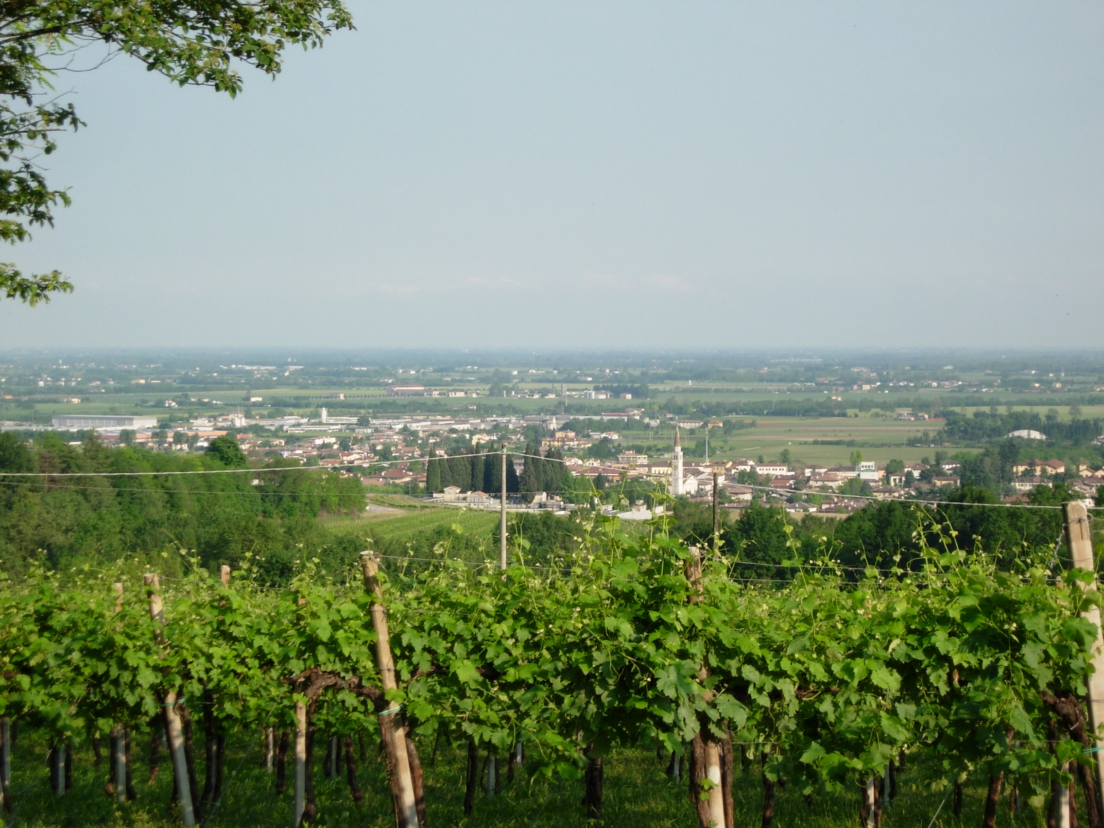 Center of Susegana town seen from the hills